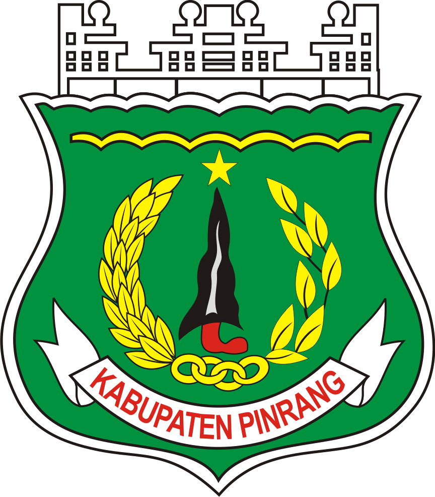 Official Logo of Pinrang Regency